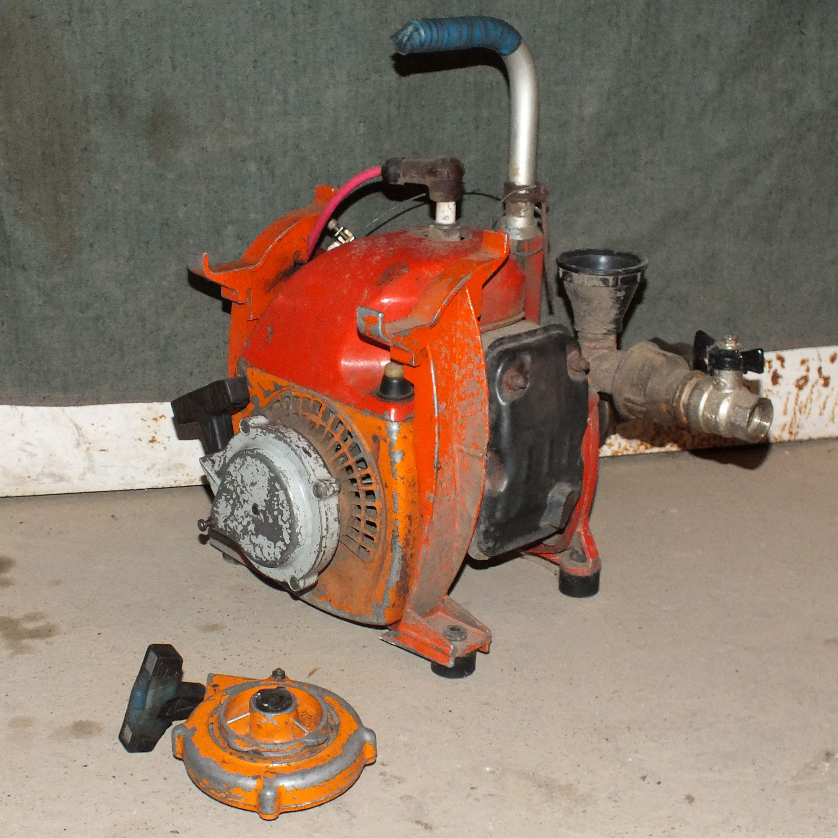 Центробежный насос "Нептун" с двигателем от бензопилы "Урал"